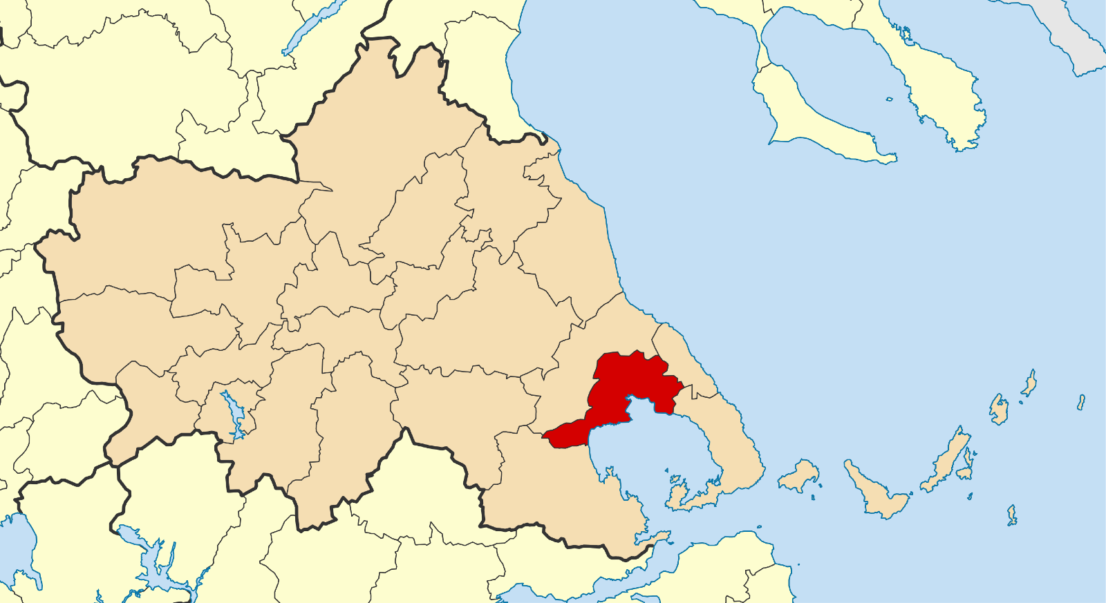 Locator map for Volos municipality in Greek region Thessaly (2011)